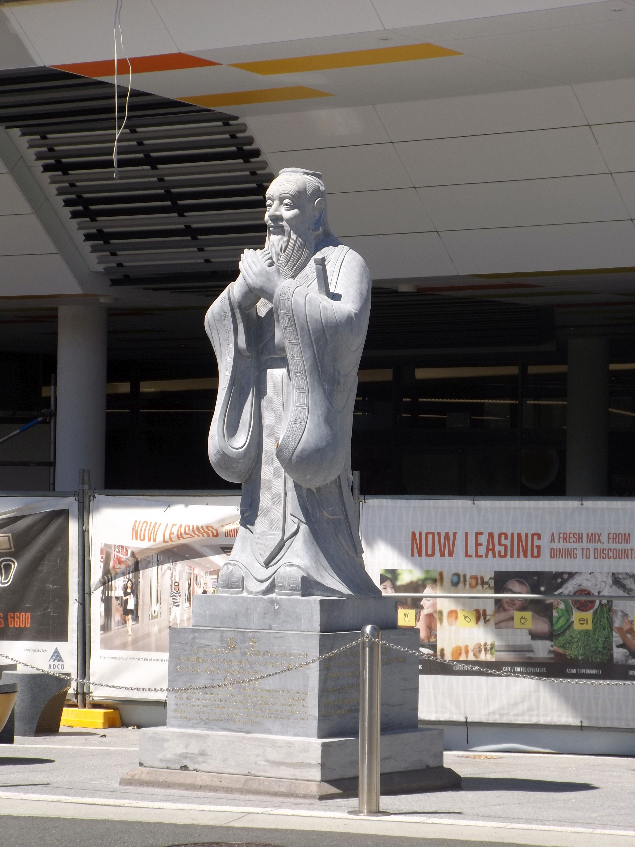 Photo of Confucius statue in Young Street, Chinatown, Southport, Gold Coast City, Queensland, Australia.